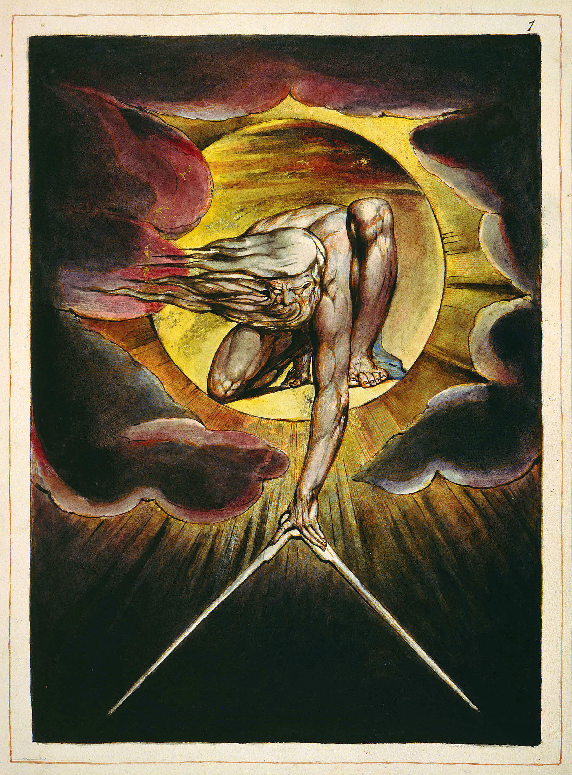 Plate from Europe a Prophecy, copy K, in the collection of the Fitzwilliam Museum, Cambridge University.